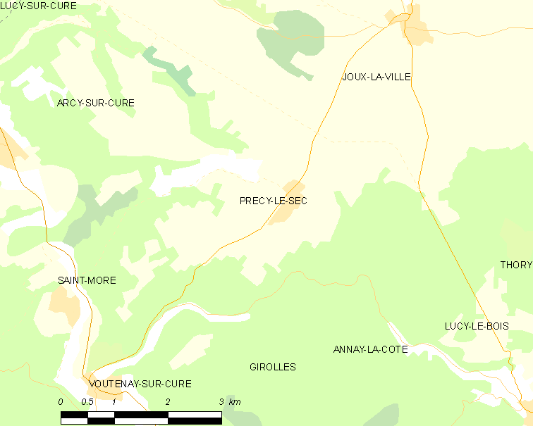 Map of French municipality Précy-le-Sec